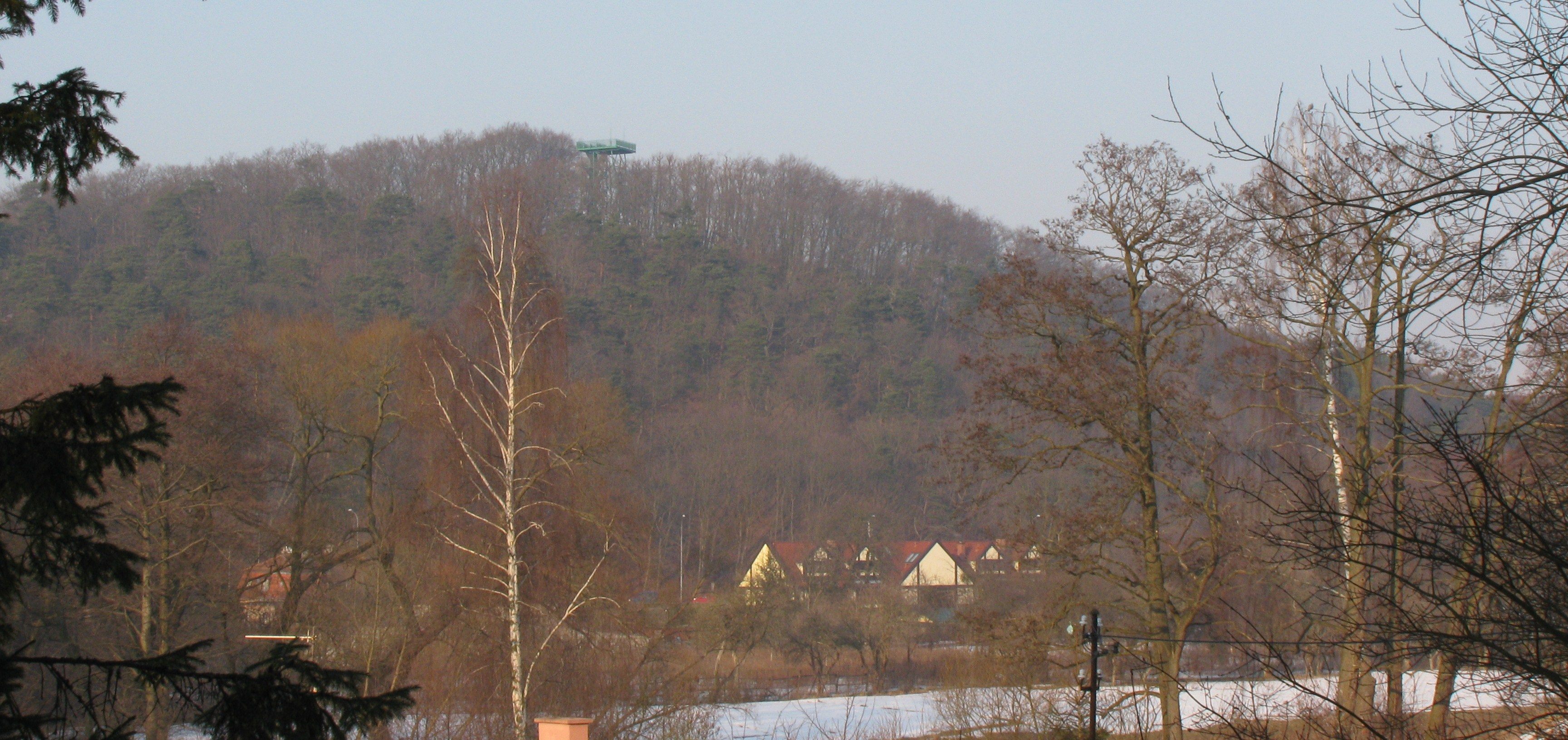 Pacholek Peak. Gdańsk, Poland.